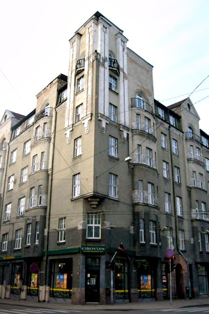 Architect Eižens Laube - Bazaar Romanowski (1909)